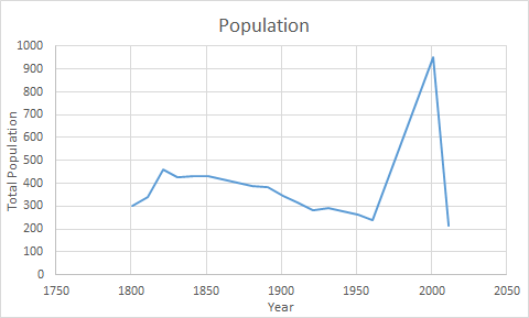 Great Thurlow population between 1801 and 2011 using data from Census population and Vision of Britan